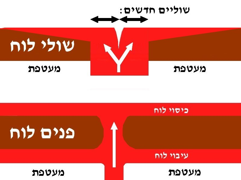 Plate coverage by LIP, Hebrew